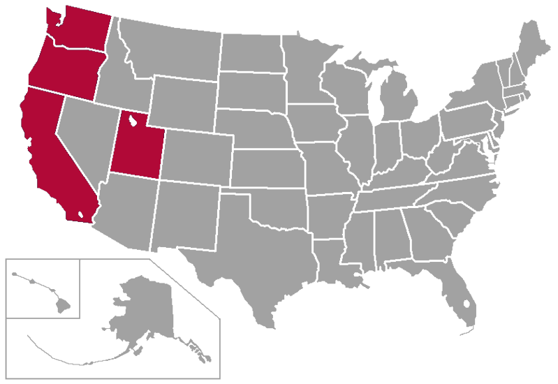 derived from [1]; map of states with West Coast Conference schools